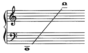 Self made image of the note range of a guqin in staff notation.